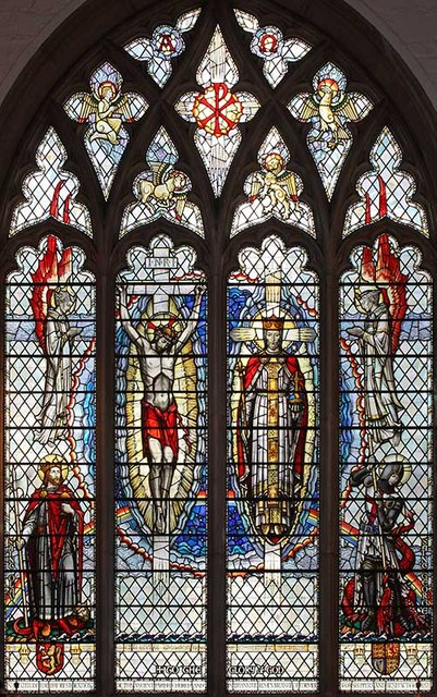 St Olave, Seething Lane, London EC3 - East window